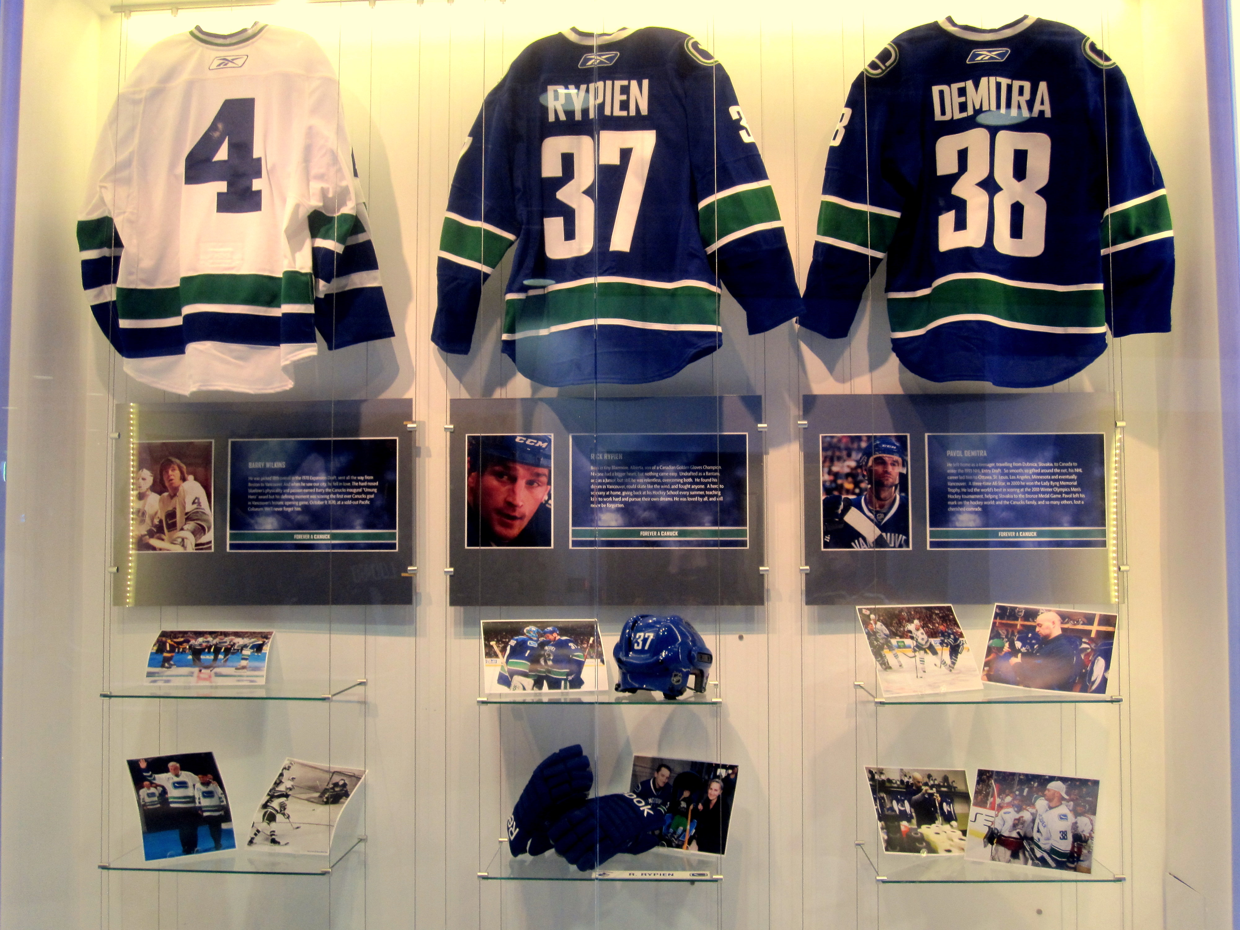 A display of replica jerseys belonging to and honouring former Vancouver Canucks players Barry Wilkins, Rick Rypien and Pavol Demitra, all of whom died in the summer of 2011. Wilkins died of lung cancer, Rypien committed suicide and Demitra died in a plane crash.